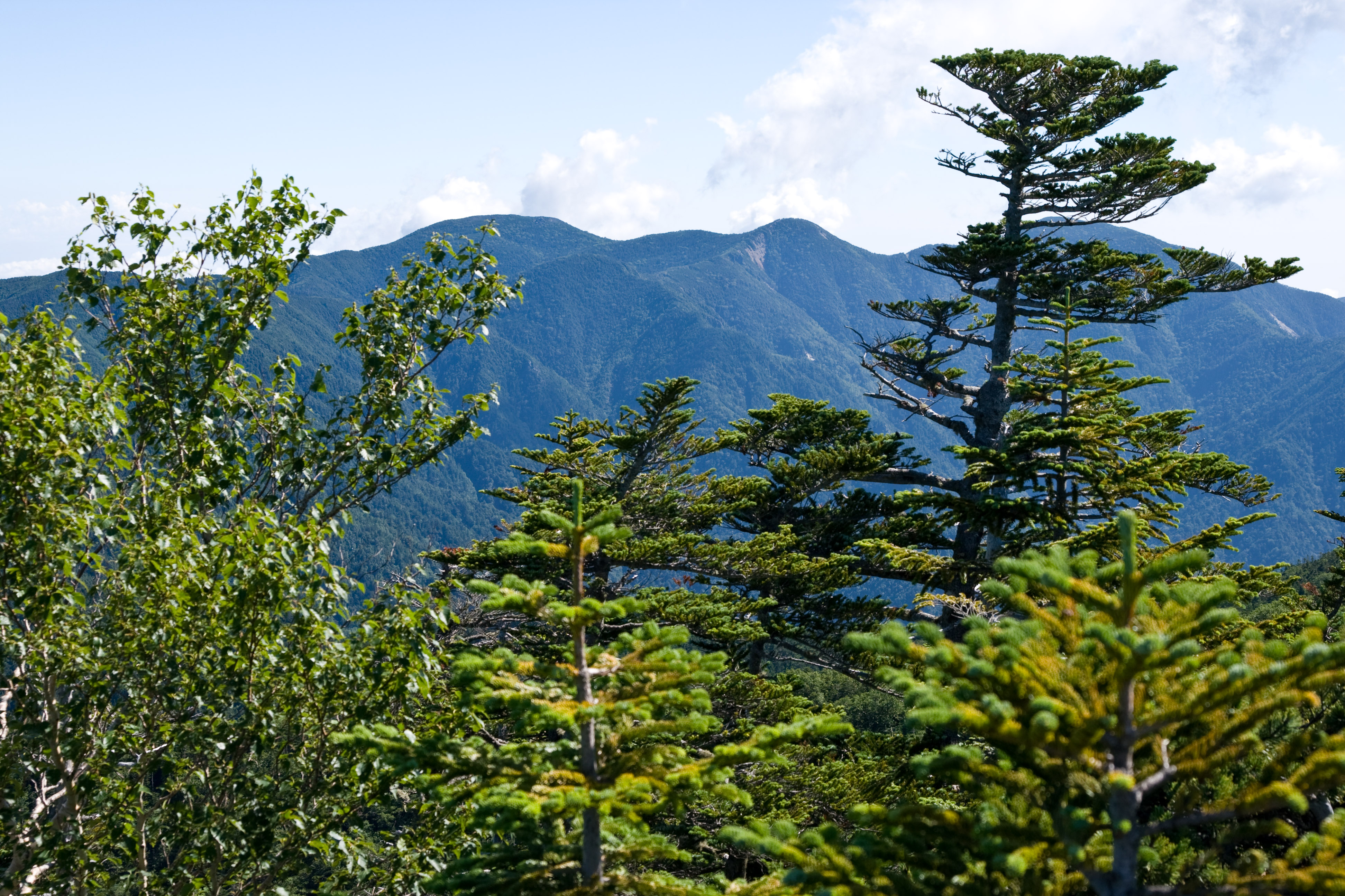 Mount Kobushigatake as seen from Mt.Kitaokusenjodake, Yamanashi Pref., Japan.